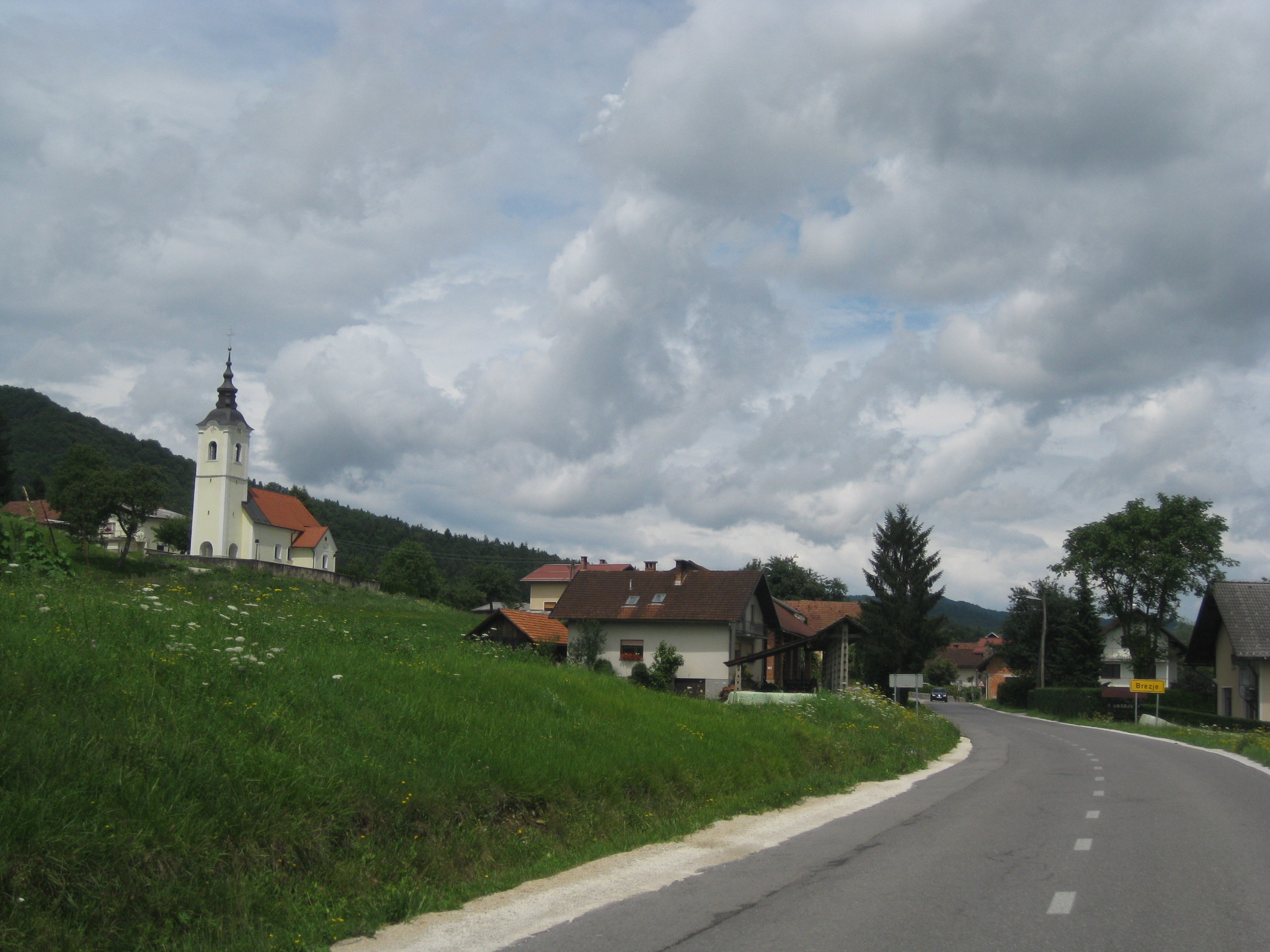 Brezje, village in Dobrova - Polhov Gradec municipality, Slovenia